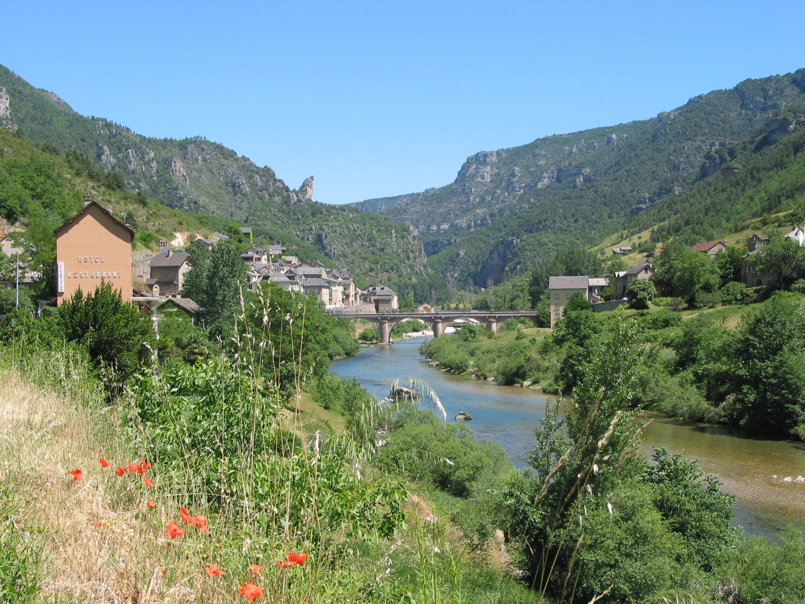 Les Vignes (France), the village and its bridge on the Tarn river.